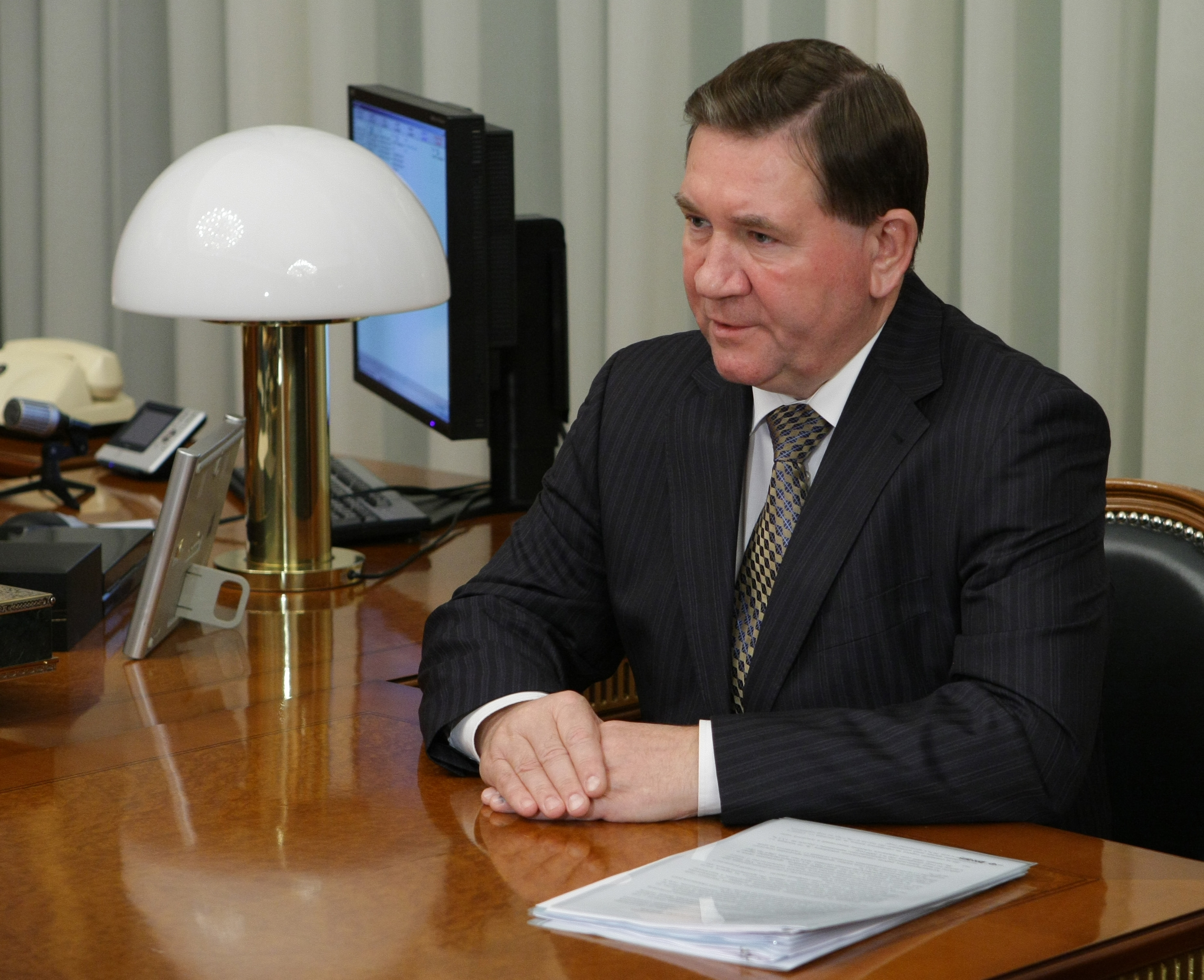 Kursk Region Governor Alexander Mikhailov at a meeting with Prime Minister Vladimir Putin